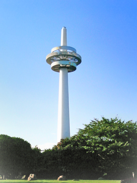 An announcement tower standing in the center of Tokorozawa Aviation Commemorative Park.